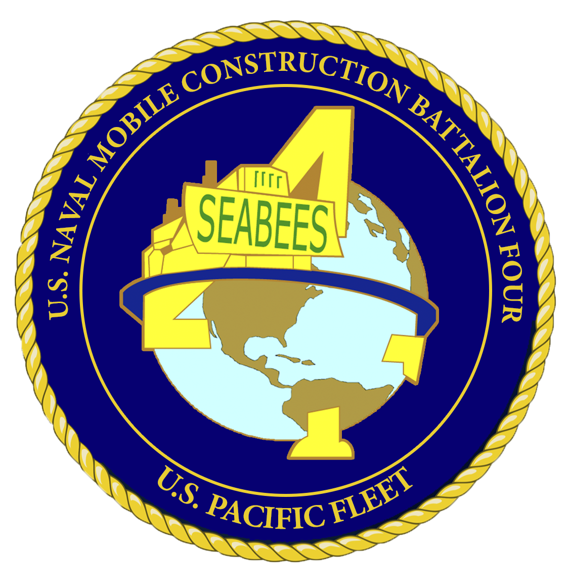 NMCB Four official logo